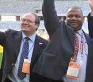 DA Leader and Western Cape Premier Helen Zille, along with Cape Town mayor Dan Plato, Cape Town deputy mayor Ian Neilson and other government and FIFA officials at the handover of the Cape Town Stadium